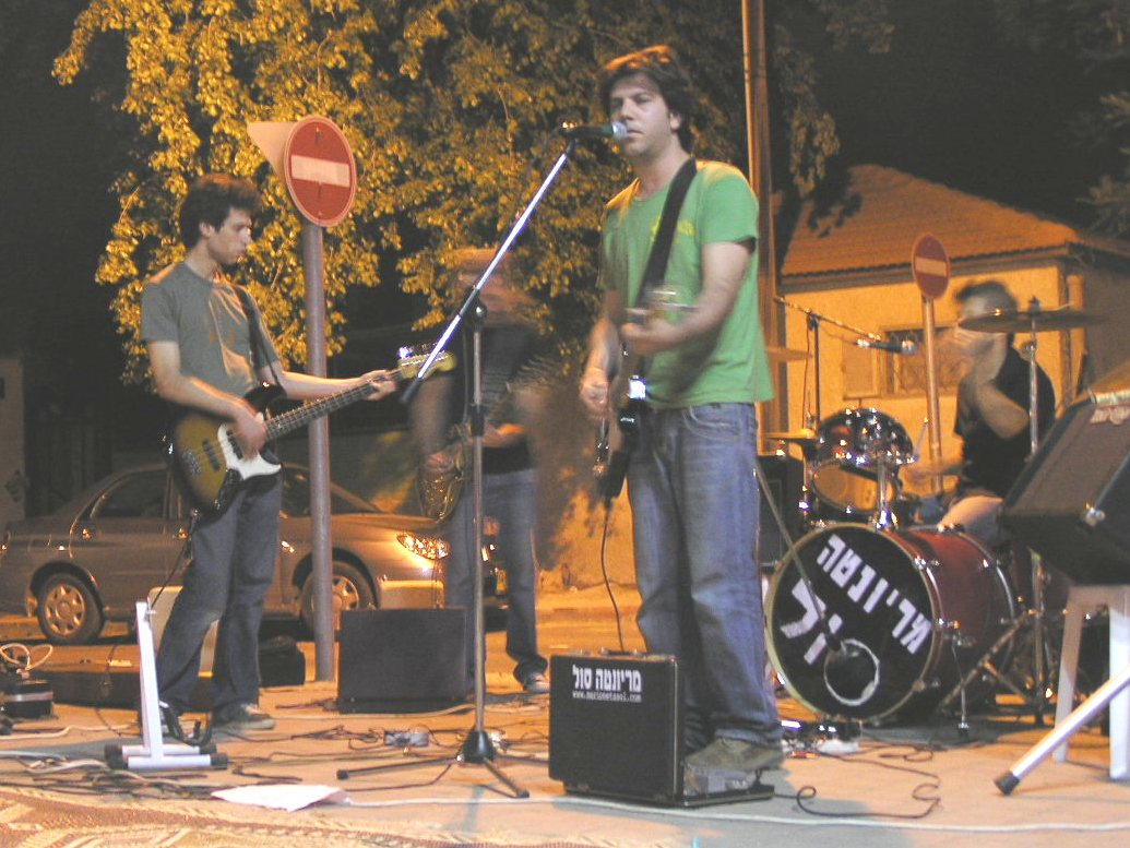 Smilansky street festival 2007 }